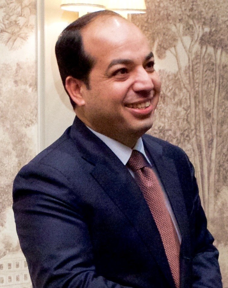 Libyan politician Ahmed Maiteeq.